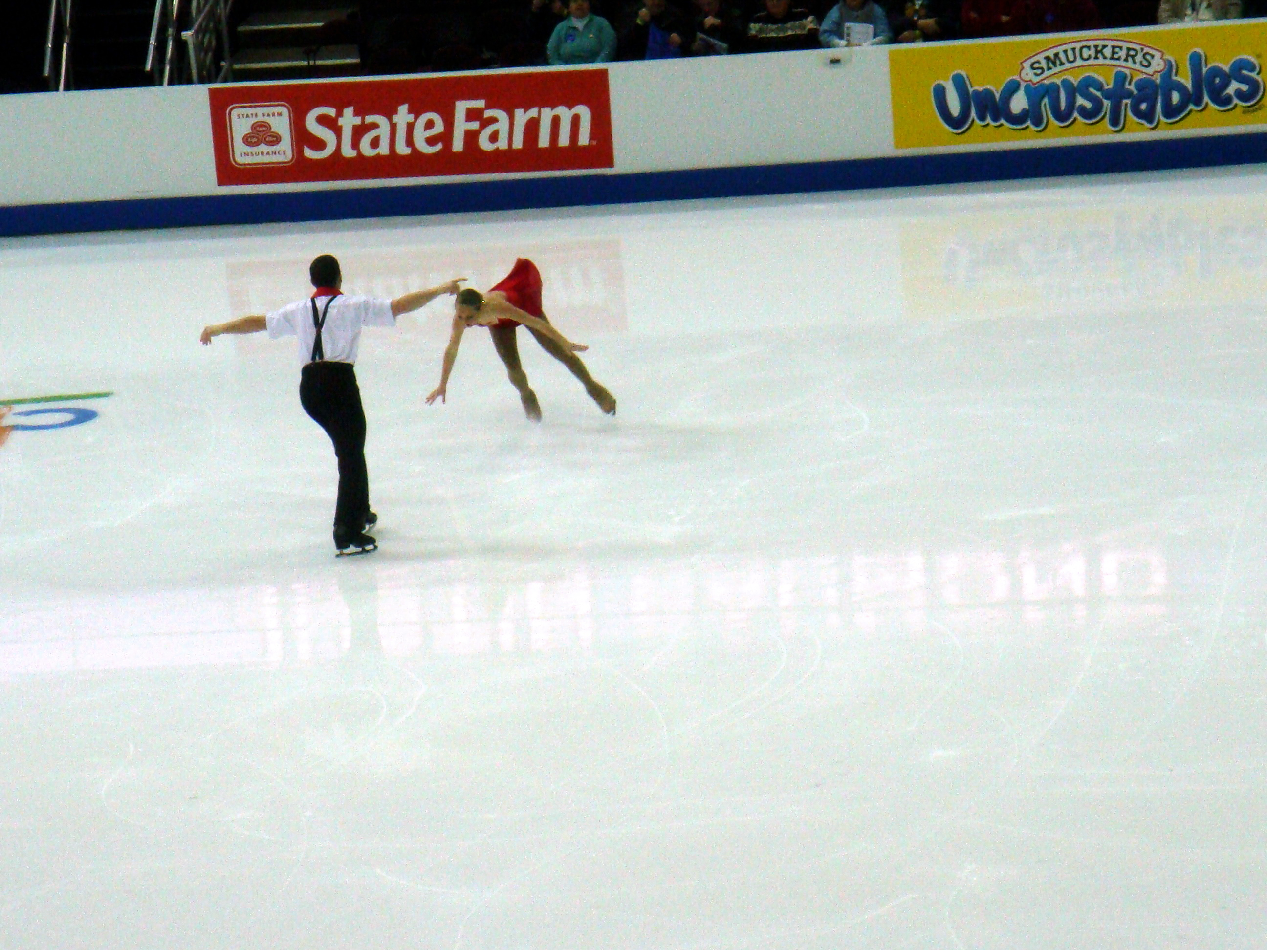 Lisa Moore & Justin Gaumond during their free skate at the 2009 U.S. Figure Skating Championships in Cleveland, OH